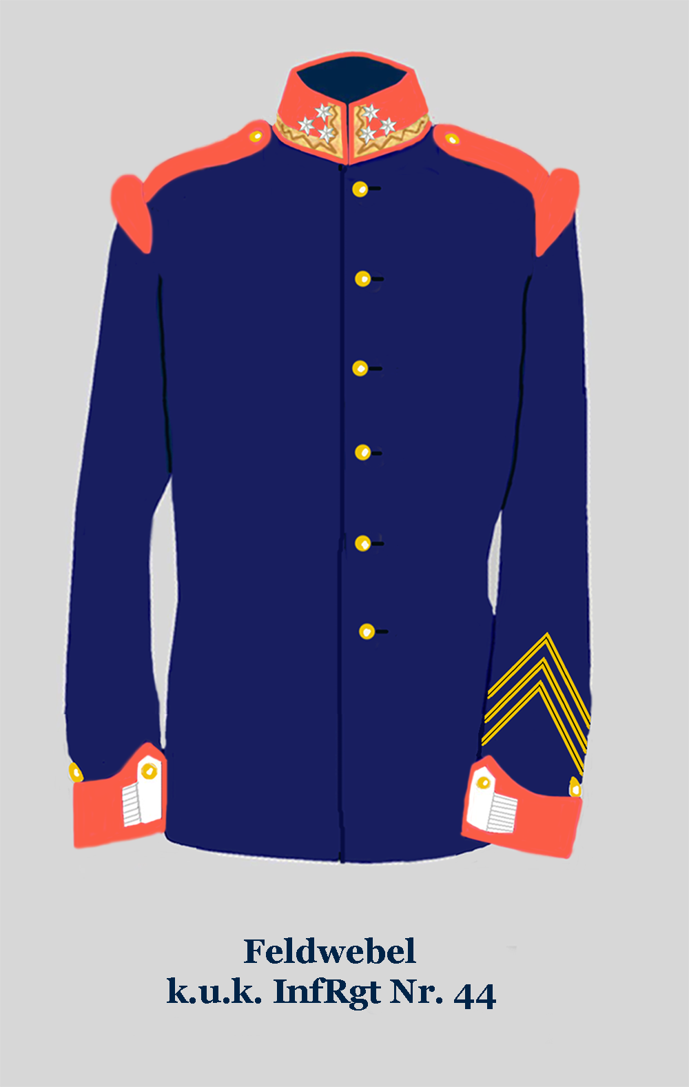 Master-Sergeant (Hungarian style tunic) of the Austria-Hungarian Army (More than 9 years in service)